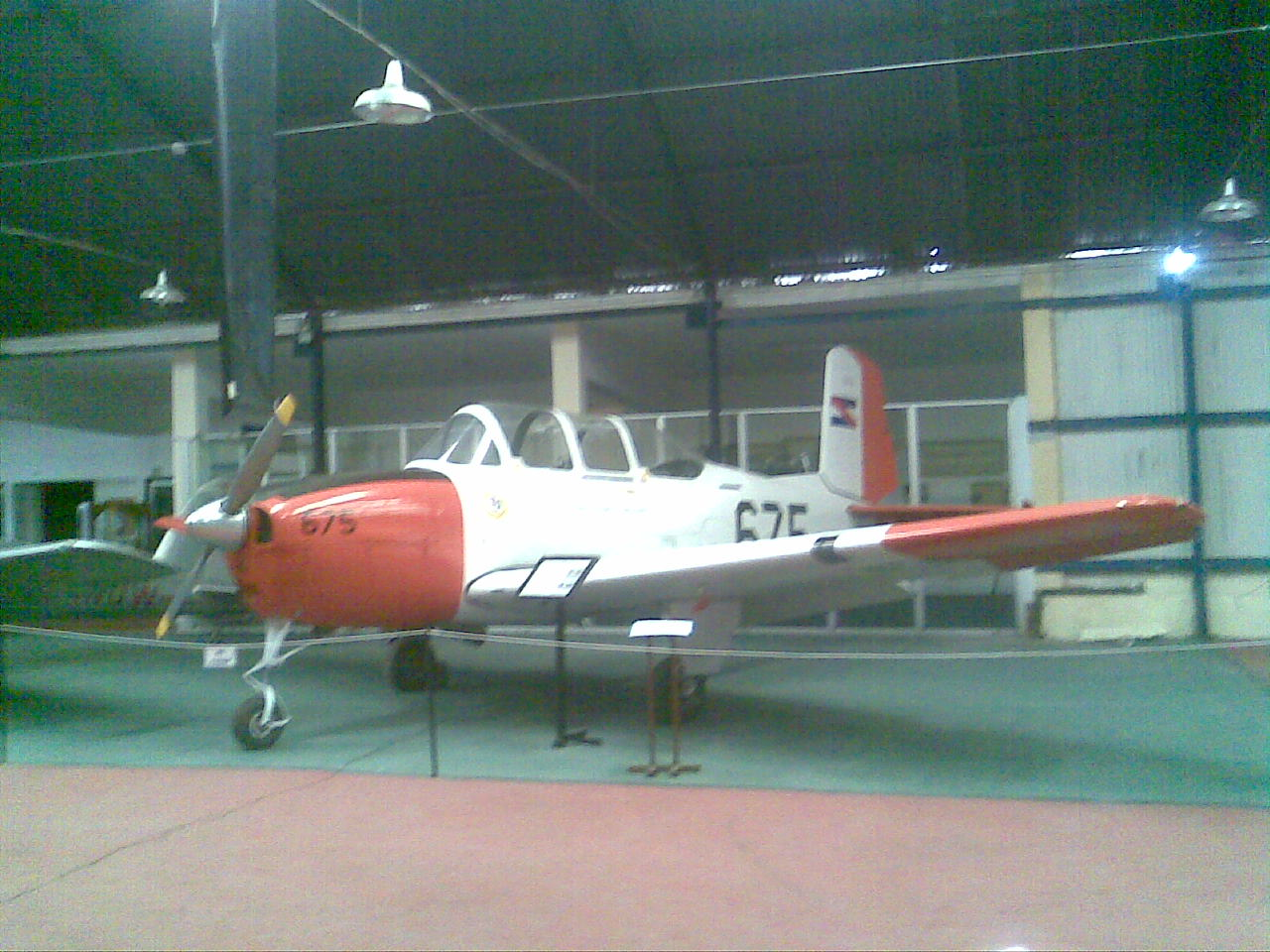 T-34B Mentor in Uruguayan Air Force Aeronautic Museum in Montevideo, Uruguay.